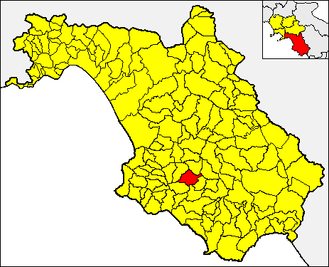 Locator map of the municipality of Gioi (red) within the Province of Salerno